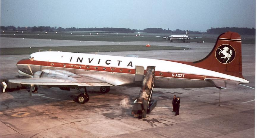 Douglas DC-4 (R5D) Skymaster of Invicta International Airways at Manchester Airport, England